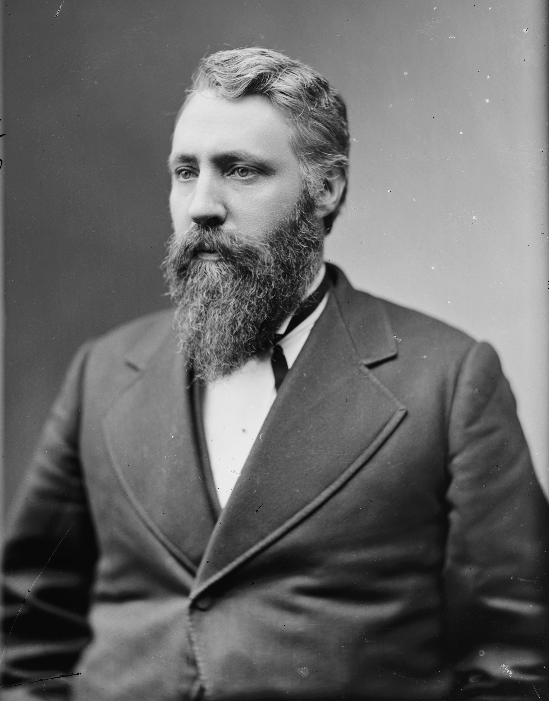 J. Warren Keifer. Library of Congress description: "Keifer, Hon. J. Warren of Ohio, 46th Cong.".